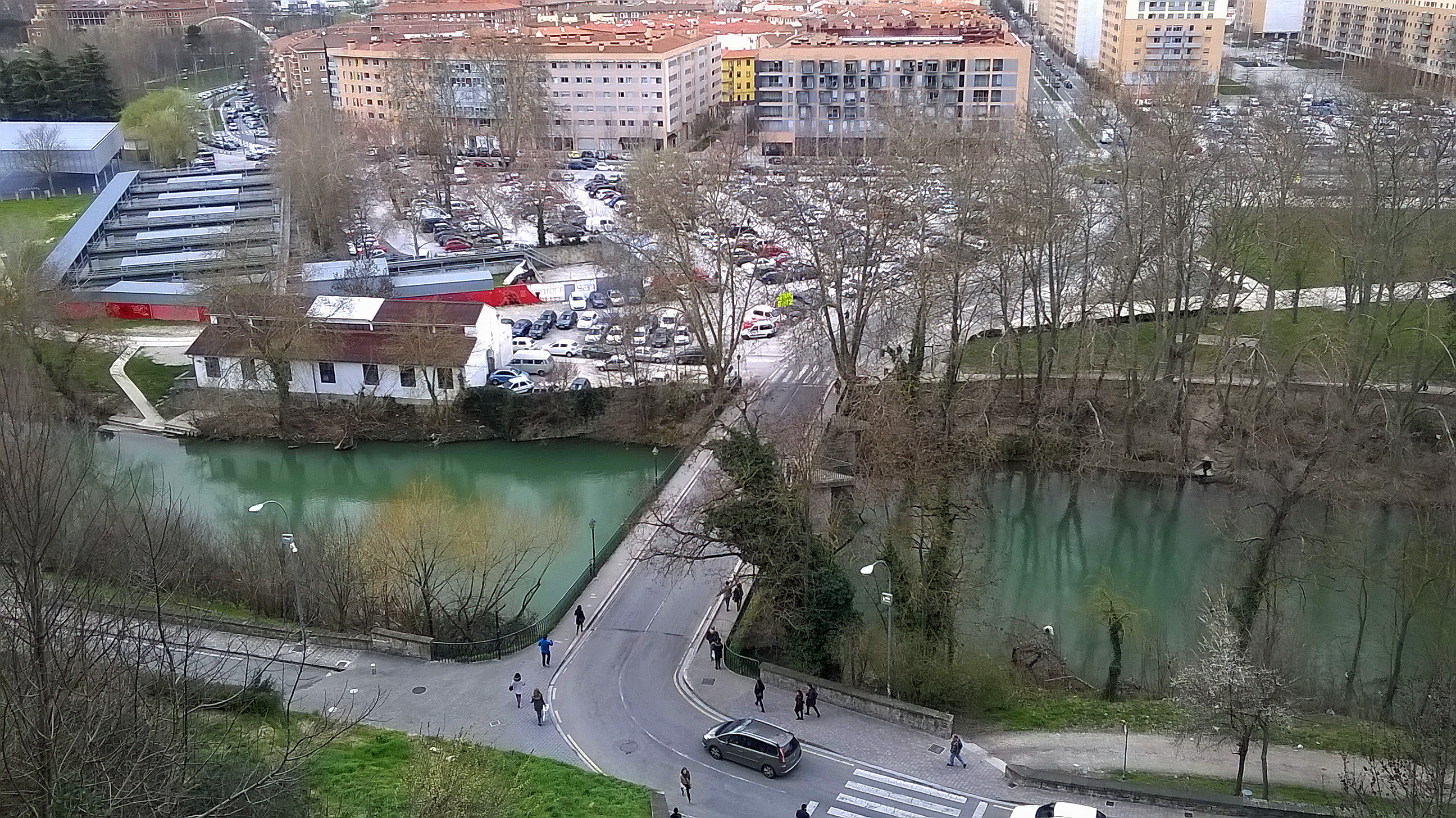 Arrotxapea or Curtidores bridge, Iruñea-Pamplona, Navarre, Basque Country